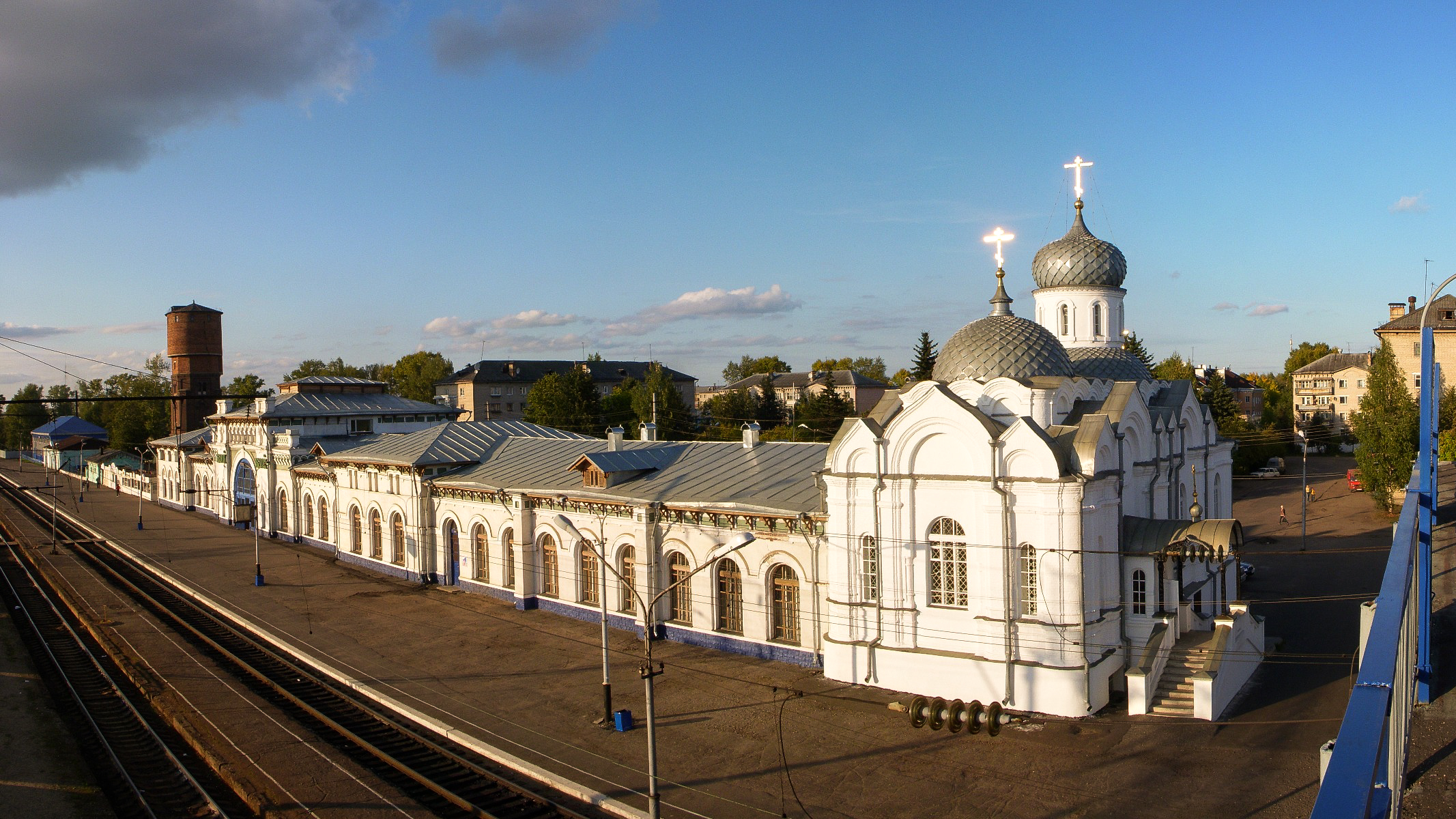 Buy railway station (Buy town, Kostroma region) with Saint Nicolas Orthodox church